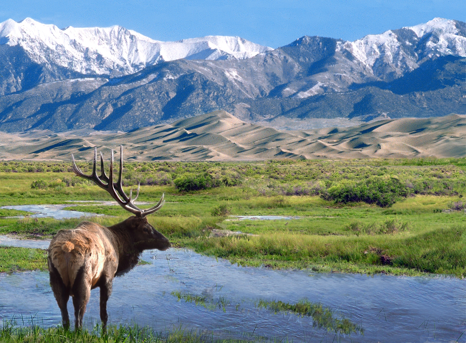 Bull elk at Big Spring Creek, Great Sand Dunes National Park & Preserve, CO Photo credit: NPS